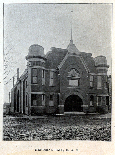 Grand Army of the Republic Memorial Opera House, 1898. Photograph courtesy of the Steven R. Shook collection. Located in Valparaiso, Indiana, on E. Indiana Ave. between S. Franklin St. and S. Michigan Ave.